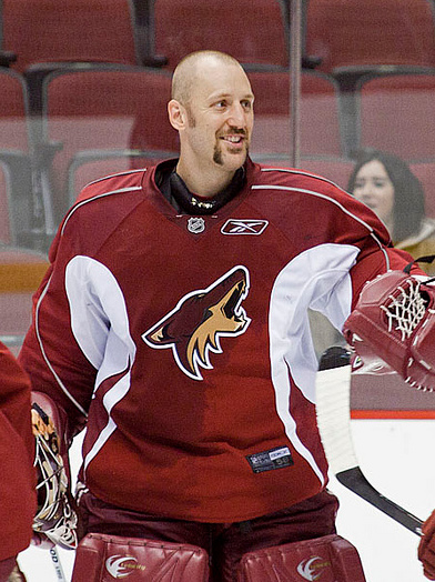 Phoenix Coyotes goaltender Jason LaBarbera during a team practice in September 2010.